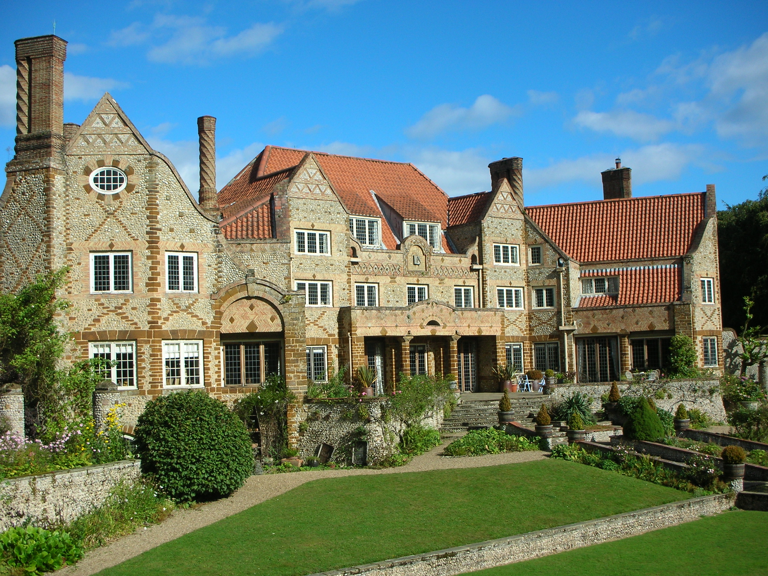 Voewood House, High Kelling, Norfolk